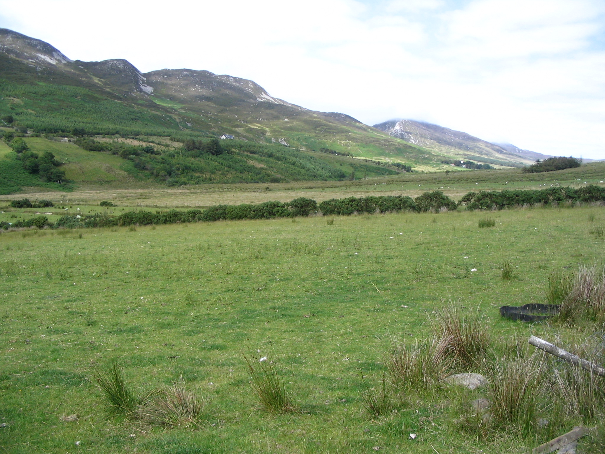 Urris Hill - Croaghcarragh- Gap of Mamore